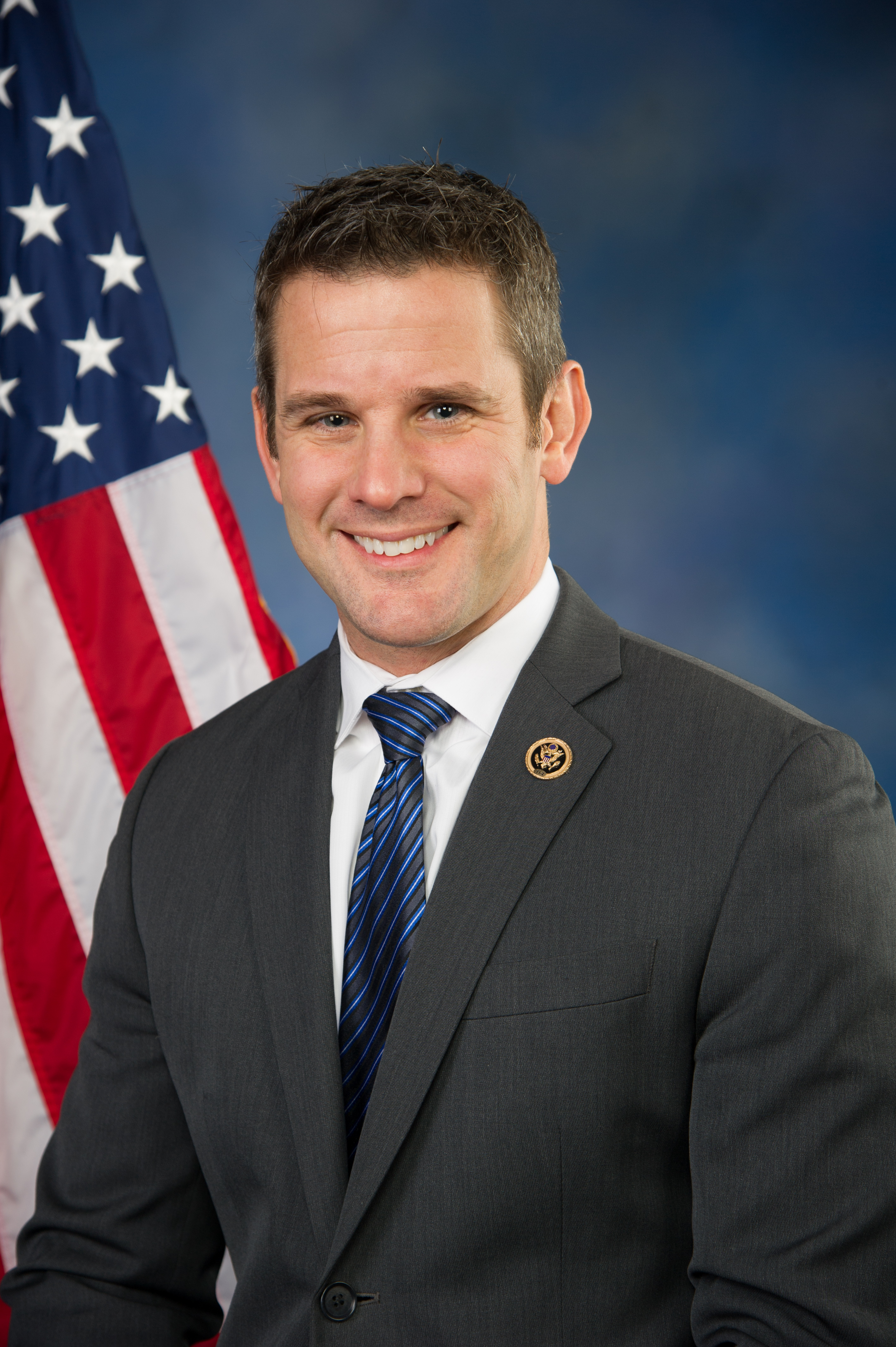 Adam Kinzinger portrait, 114th Congress